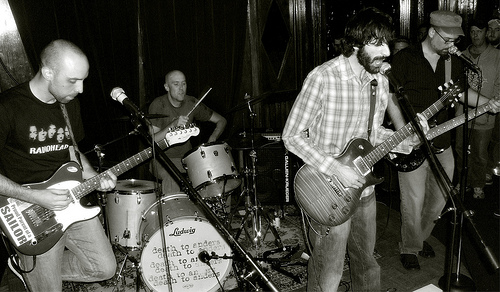 Los Angeles indie band Death to Anders performing at the 3 of Clubs in Hollywood, CA 1.14.09